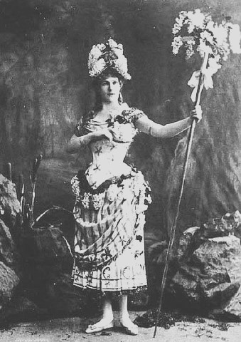 Photo taken by an unknown photographer at the Mariinsky Theatre, St. Peterbsurg, Russia of the Ballerina Maire Petipa in The Sleeping Beauty, 1890. Photo comes from my own collection and was scanned by me, Mrlopez2681. 01:40, 10 August 2006 (UTC)